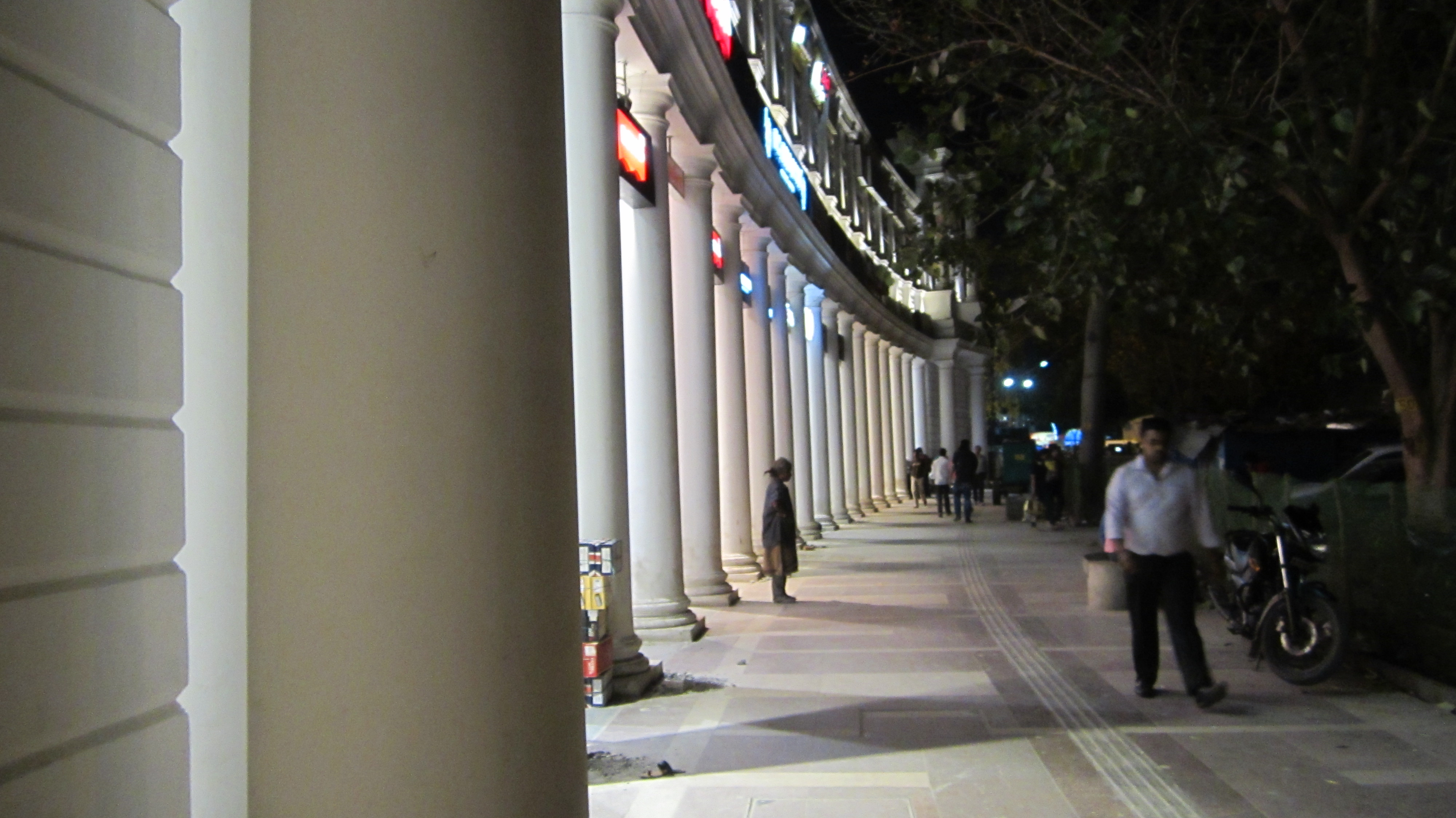 colonnade of f block building at Connaught place